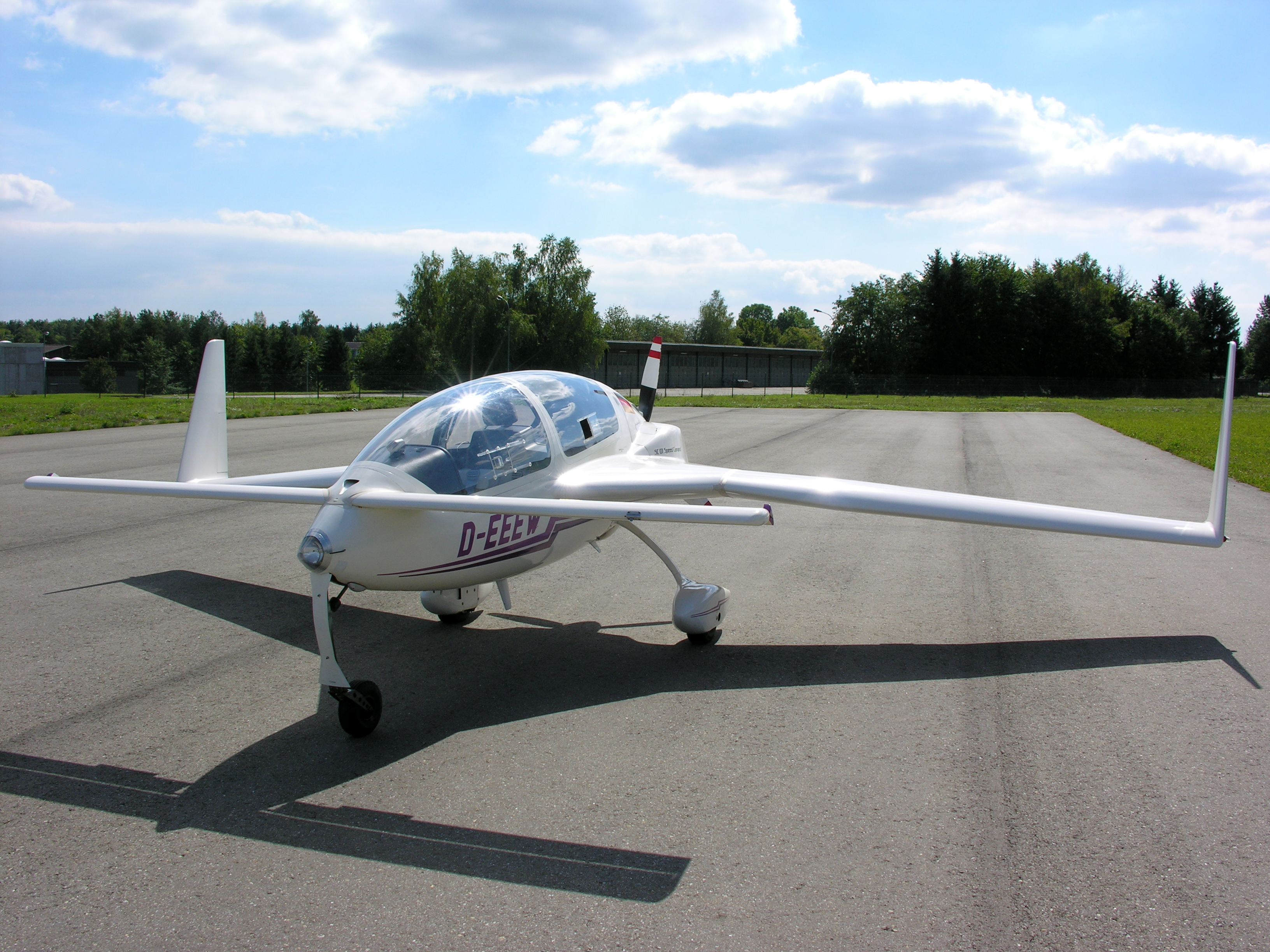 Germany, Speed Canard D-EEEW in Neuhausen ob Eck